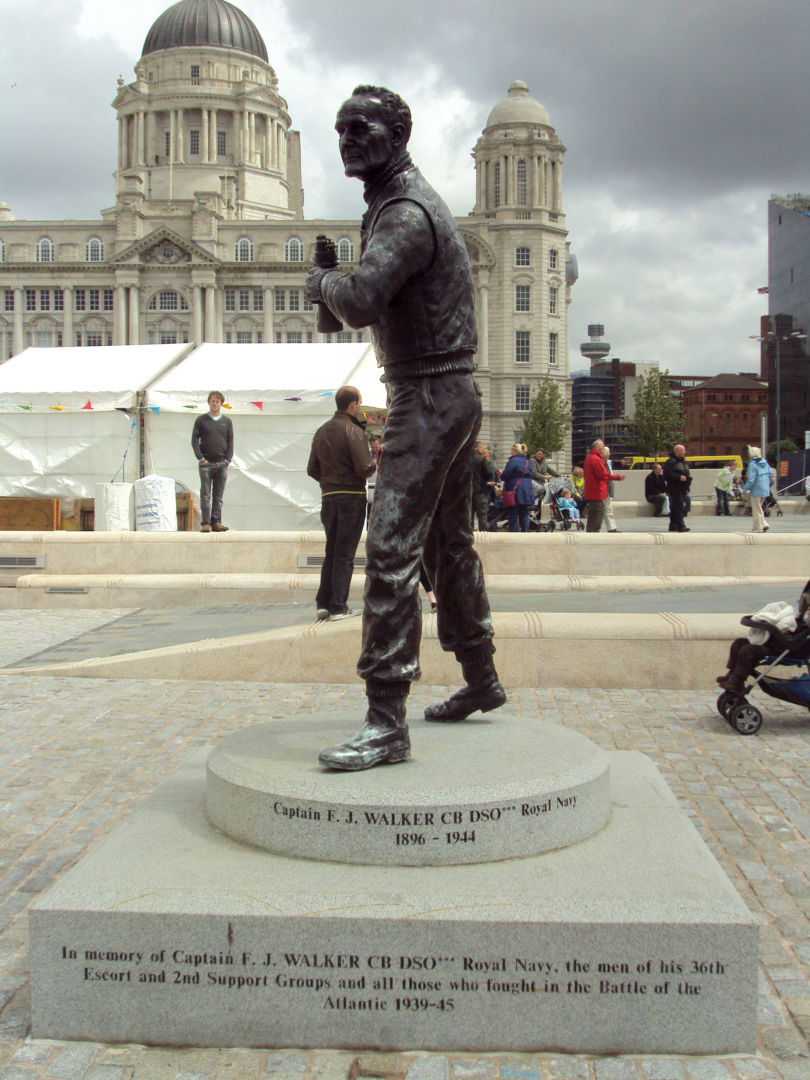 Statue of Captain Frederick John Walker,RN at Pier Head, Liverpool.